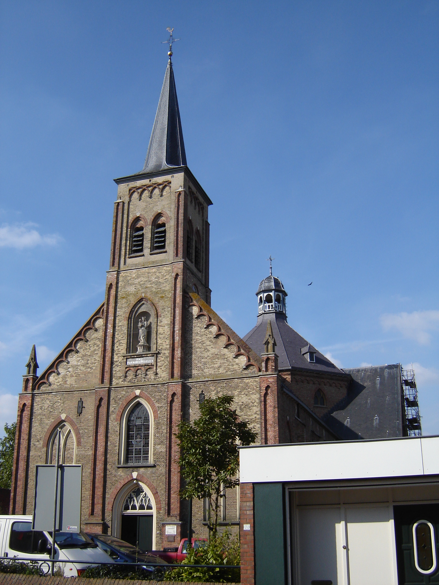 Roman Catholic church of the Assumption of Mary Aardenburg. Aardenburg, Sluis, Zeeland, Netherlands